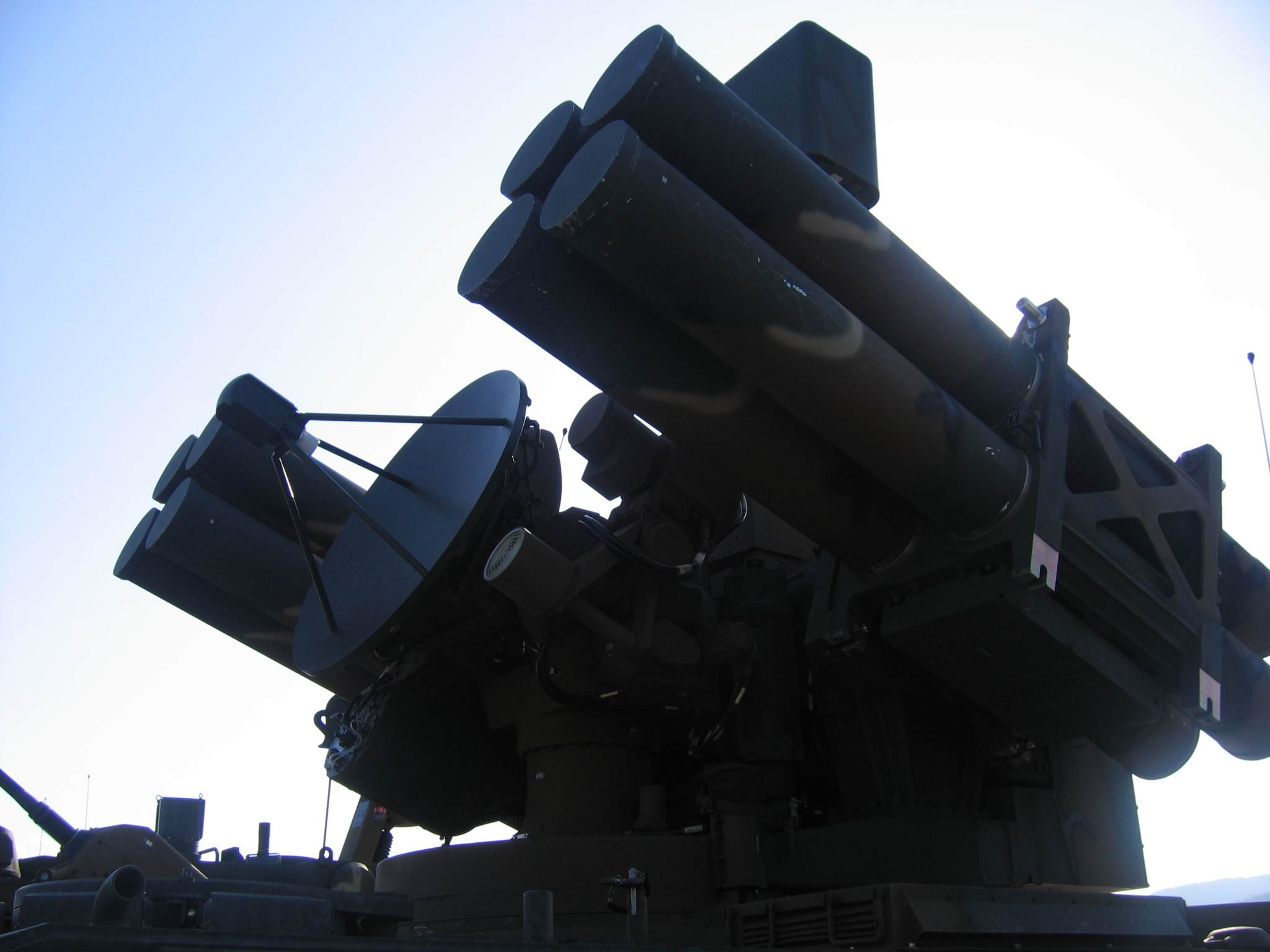 Chunma Self-propelled anti-aircraft Missile of South Korea which photoed by Rheo1905 in 2007 Seoul Air Show